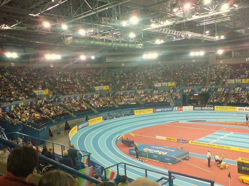 The National Indoor Arena, Birmingham, UK being used to host an athletics meeting